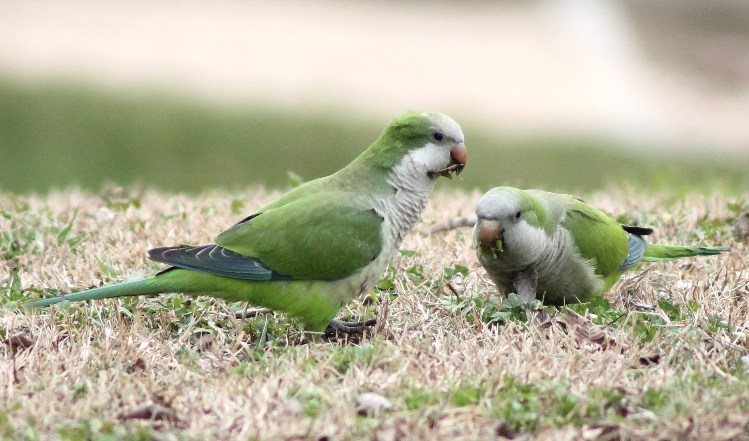 Two Monk Parakeets (Myiopsitta monachus) in Madrid (Spain).